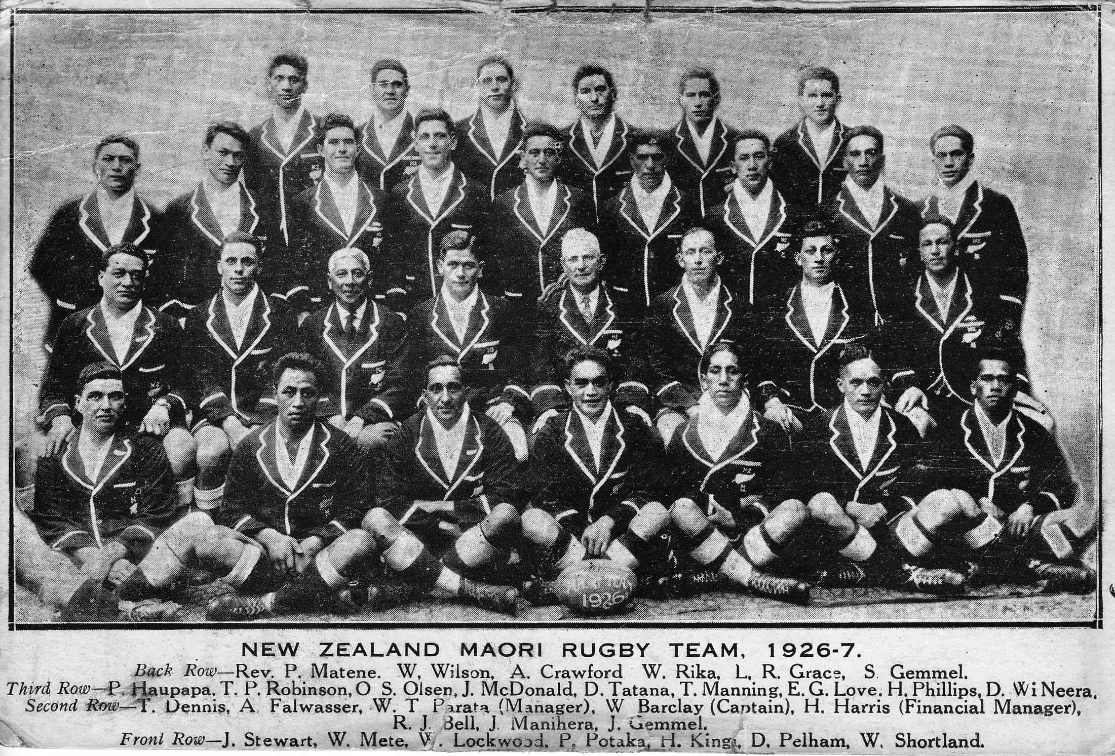 The New Zealand Maori rugby team.